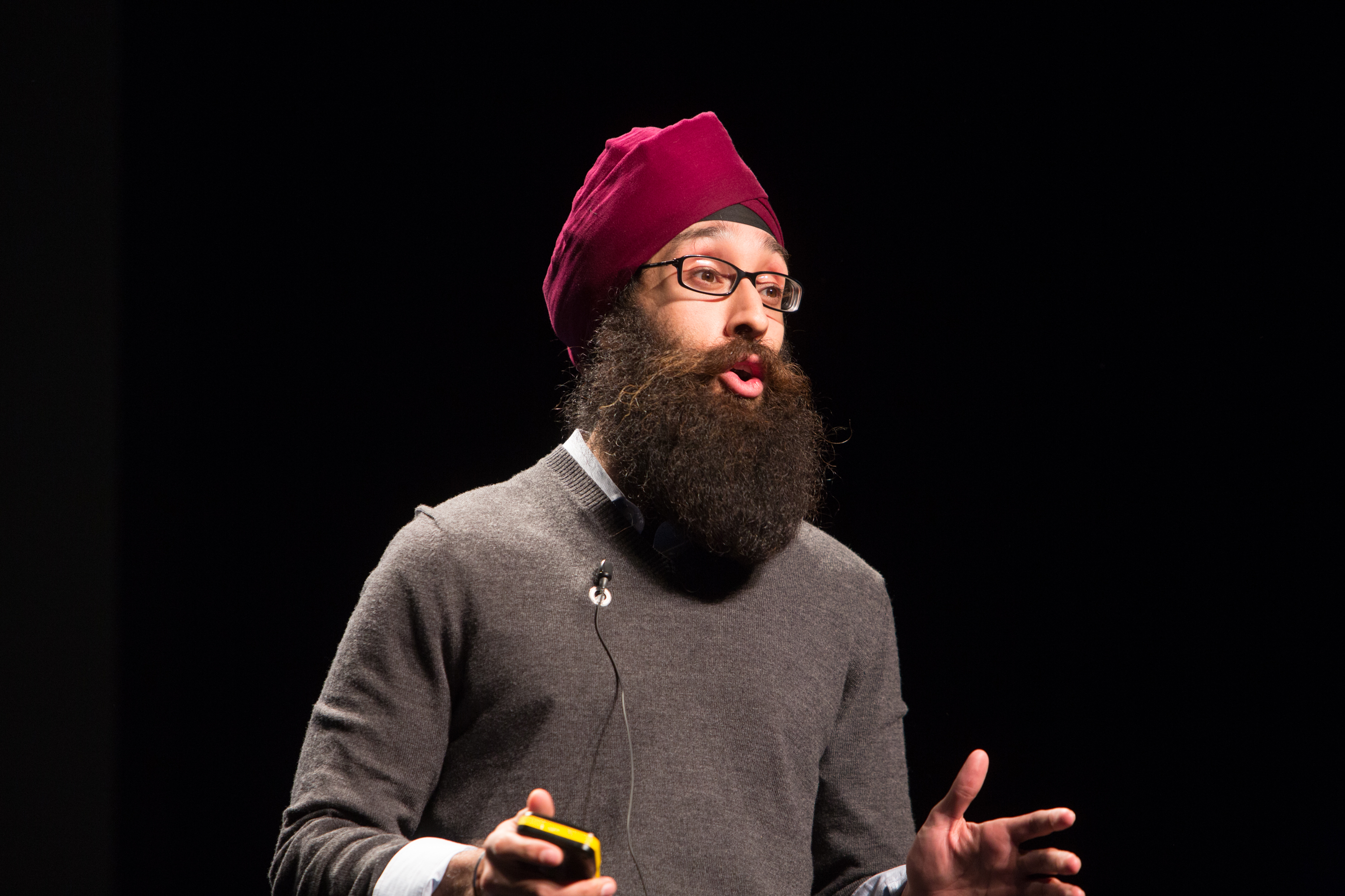 Prabhjot Singh - PopTech 2013 - Camden, ME